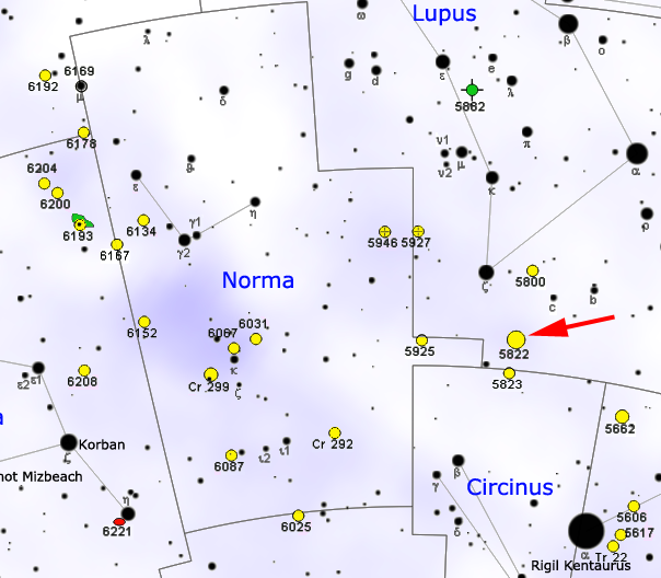 Map of NGC 5822